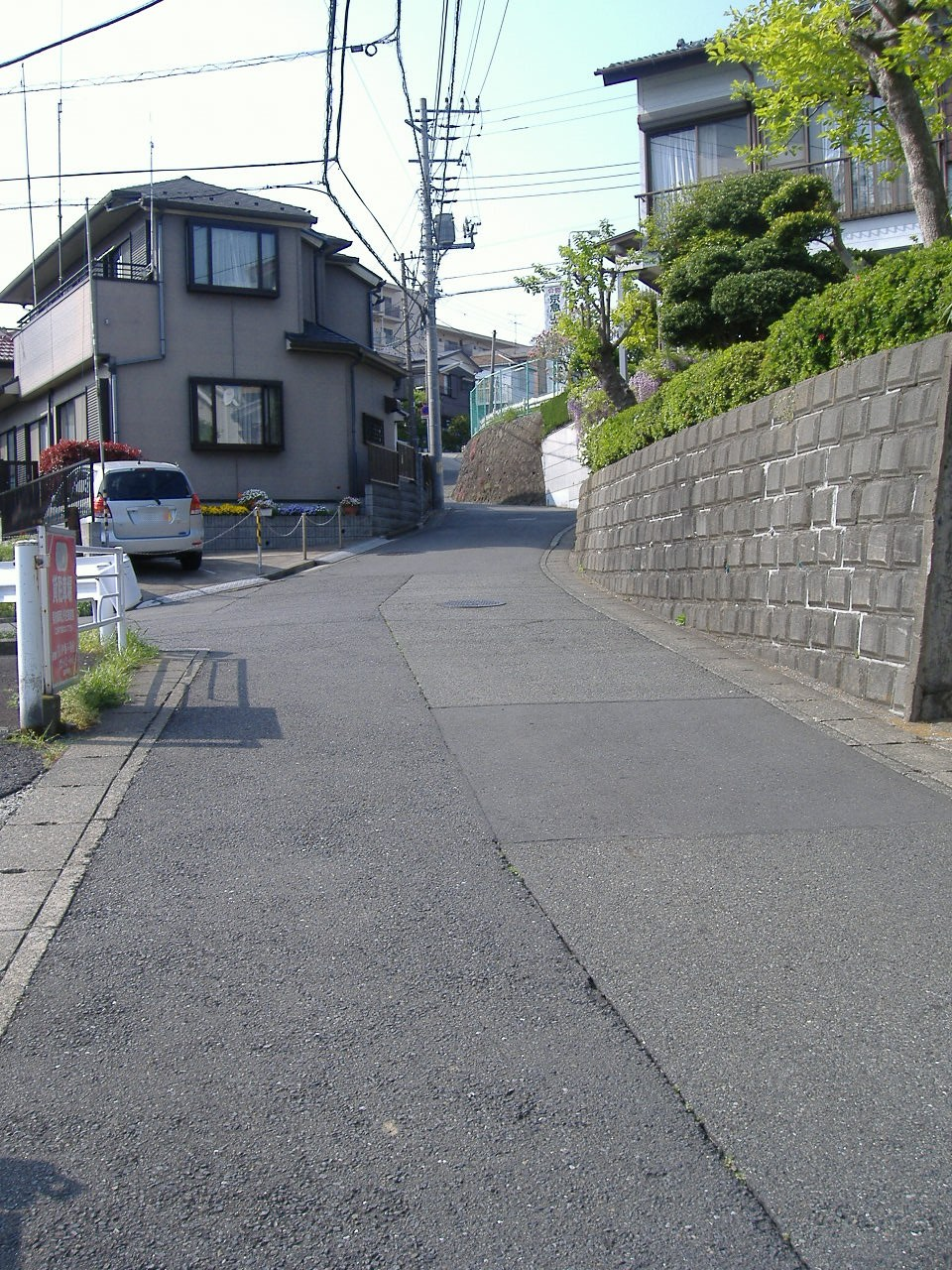 Keikyu Drivingschool Kamiooka (Yokohama, Japan)